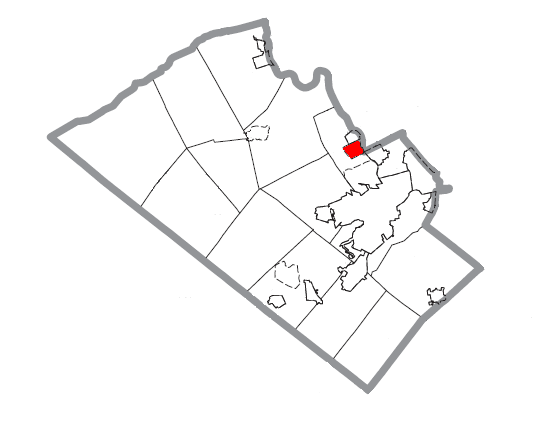 A map of Lehigh County showing Hokendauqua, Pennsylvania highlighted on the map. |Source=Source image taken from the United States Census Bureau’s website pa_cosub.pdf. Image was modified by ”Country” Bushrod Washington.